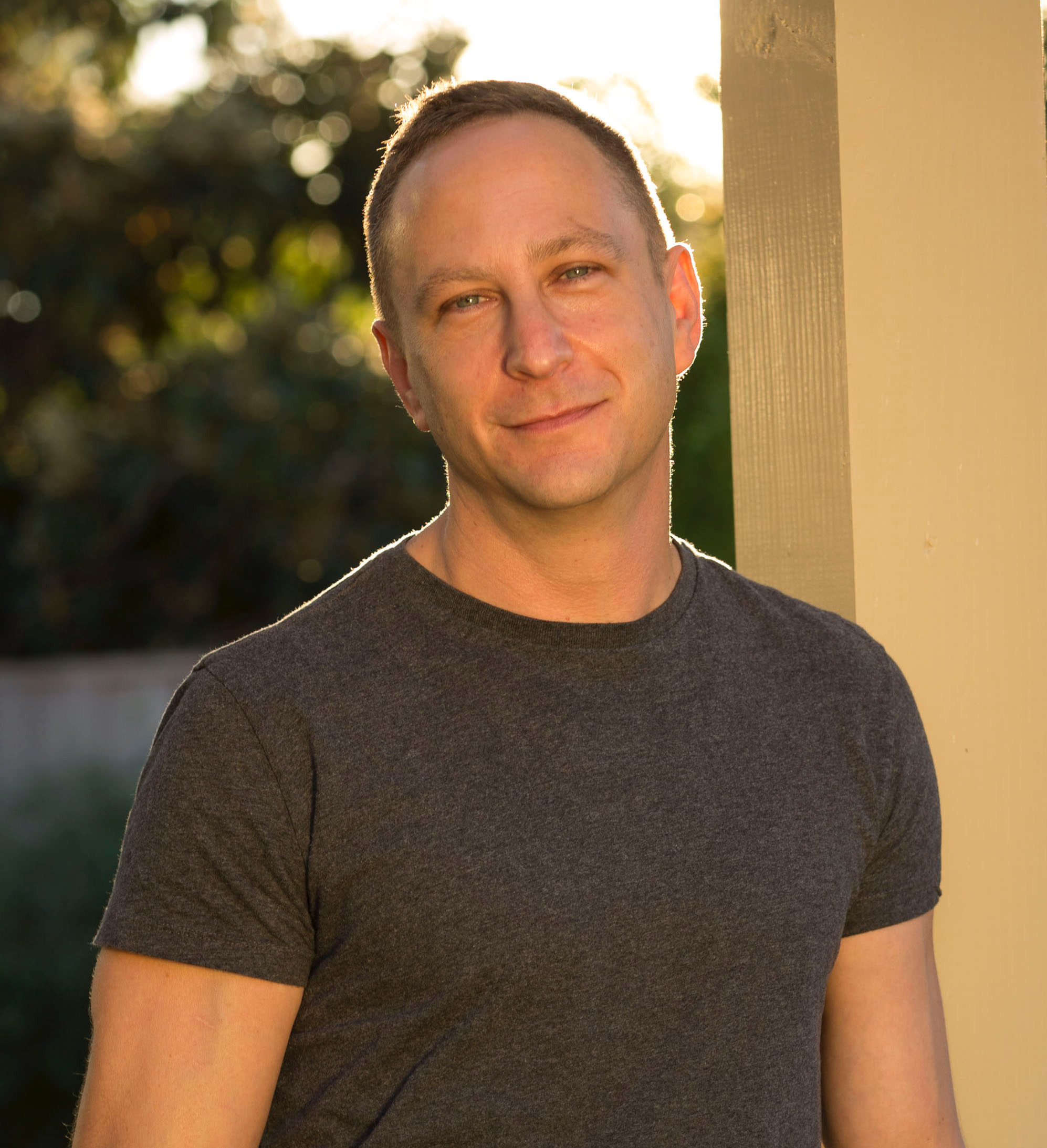 Darren G. Davis publishes and creates comic books and graphic novels.